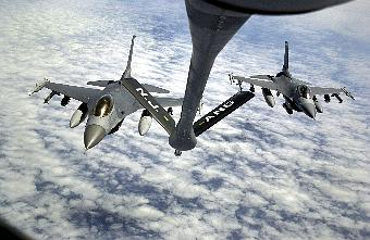 ISTRES, France -- Two F-16s from Aviano Air Base, Italy, drop away from the fuel boom after gassing up from a KC-135 Stratotanker over the Adriatic Sea. The jets were refueled by the New Jersey Air National Guard's 108th Air Refueling Wing, McGuire Air Force Base, N.J. The 108th ARW is part of the 16th Expeditionary Operations Group, a small U.S. Air Force detachment located on this French air base. The 16th Expeditionary Operations Group is a unit of the 16th Air Expeditionary Wing, U.S. Air Forces in Europe. (U.S. Air Force photo by Tech. Sgt. Dave Ahlschwede) Source: USAF